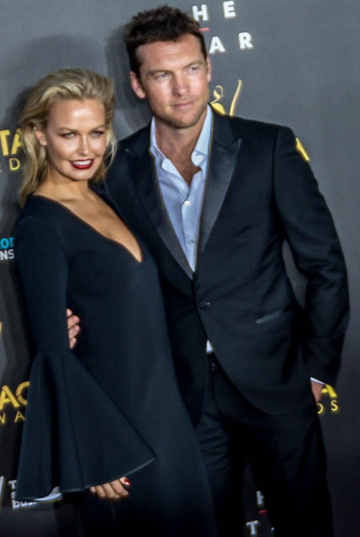 Model Lara Bingle and actor Sam Worthington on 2014 AACTAS Awards red carpet